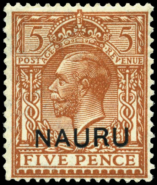 Nauru 5-penny overprint stamp of 1916